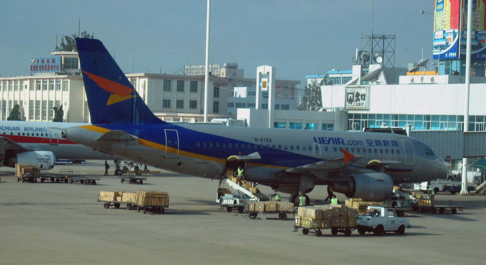 United Eagle Airlines Airbus A319-100. Photo taken by User:Adz at Kunming international airport on 9 November 2006.